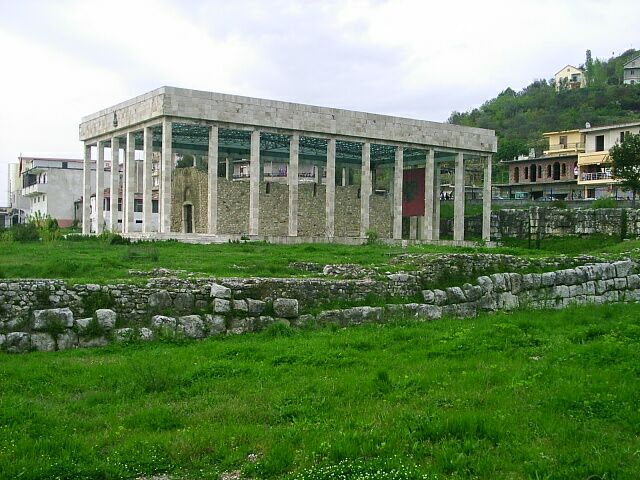 Town of Lezhë Albania